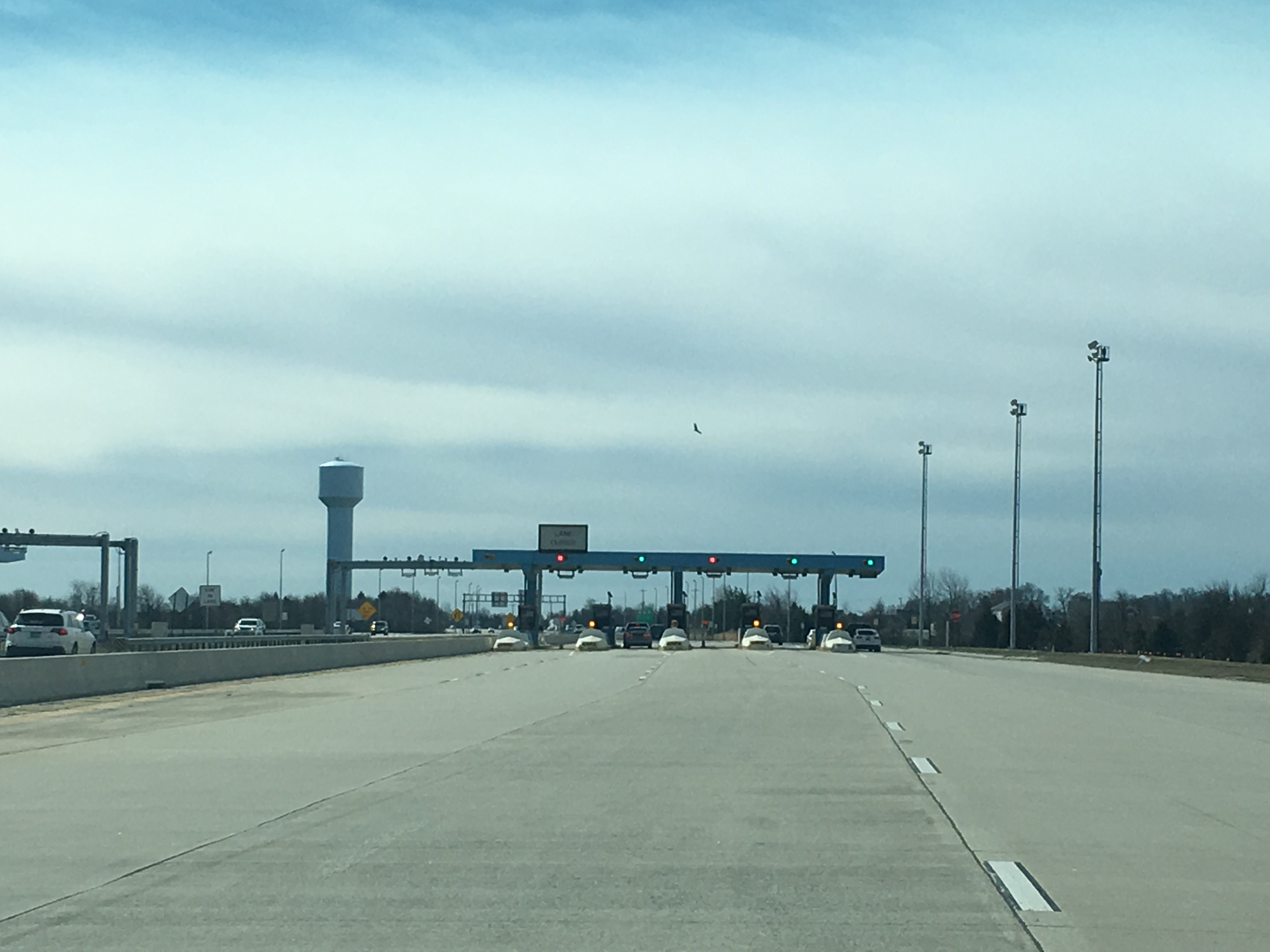 Southbound Delaware Route 1 at the Biddles Corner toll plaza in Biddles Corner, Delaware, with high-speed E-ZPass lanes